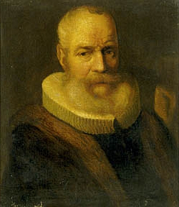 The Text accompanying the painting states that the man is said to be the Danish admiral Søren Norby (1470-1530). However, a Krapperups representative cautions that there is no proof that it is in fact S. Norby